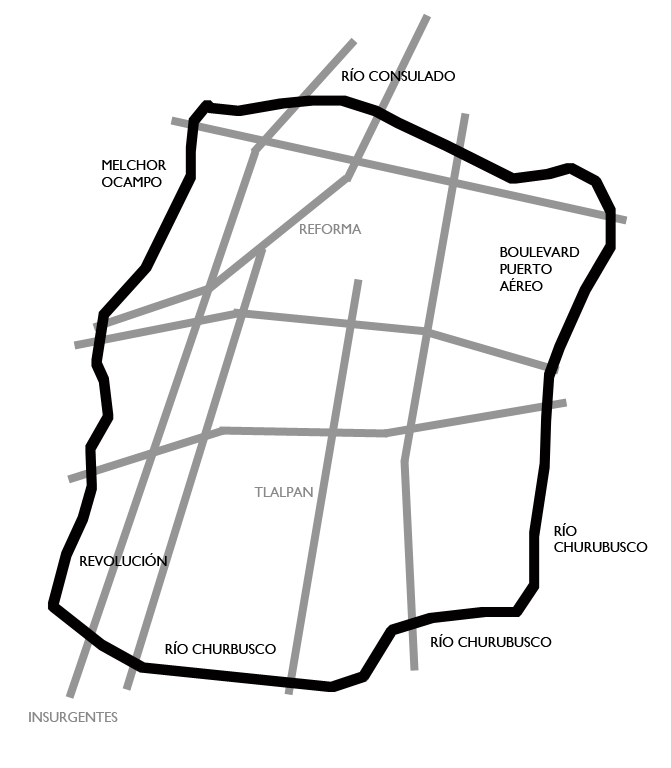 Map of Circuito Interior Bicentenario (Inner Bicentennial Circuit) of Mexico City